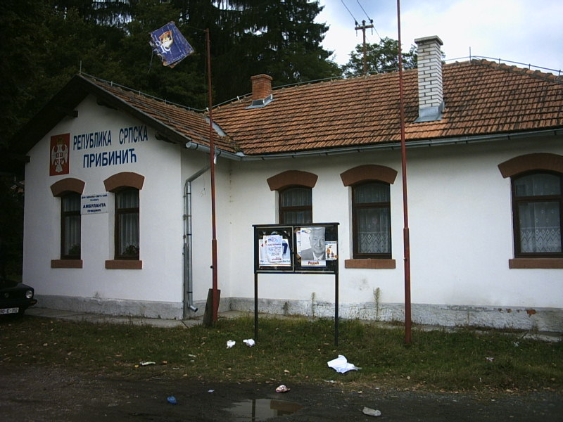 First aid office in Pribinic